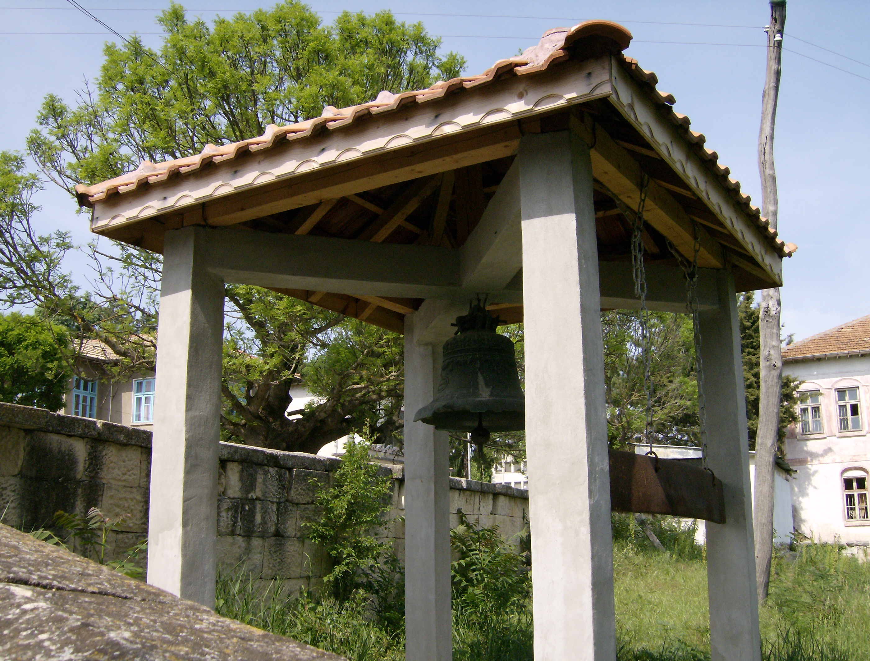 Blagoevo